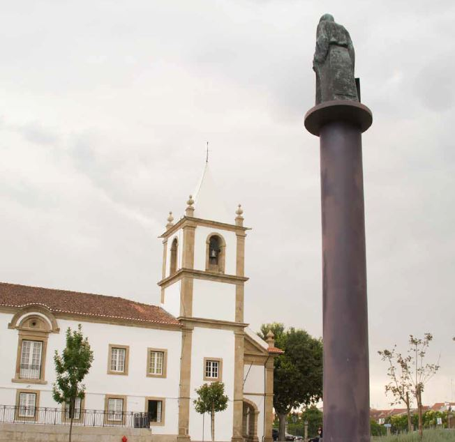 Monumento a Bartolomeu da Costa